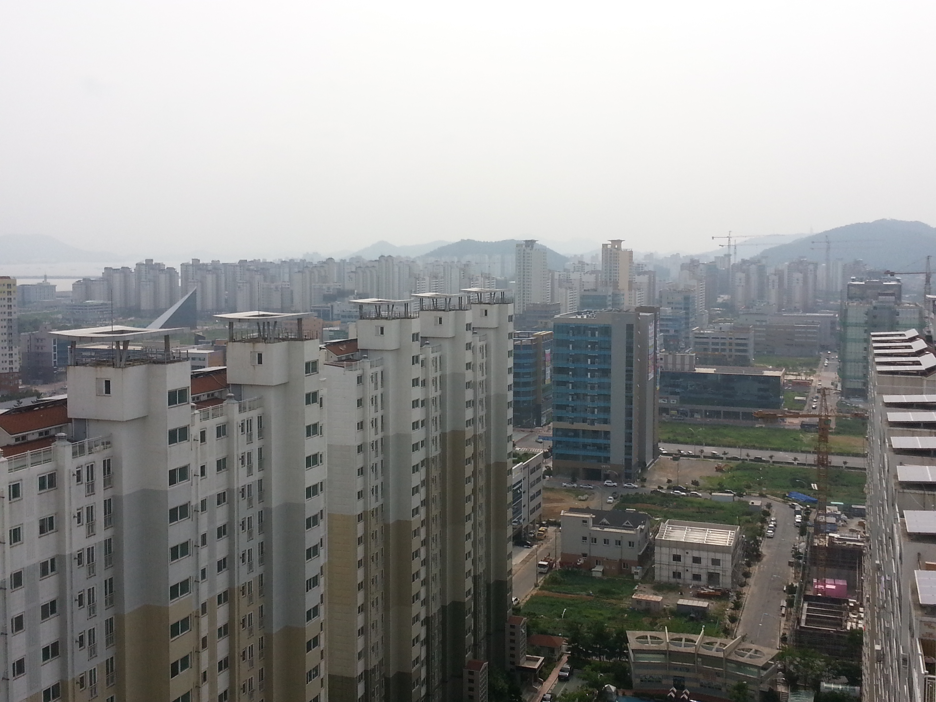 Namak near Mokpo